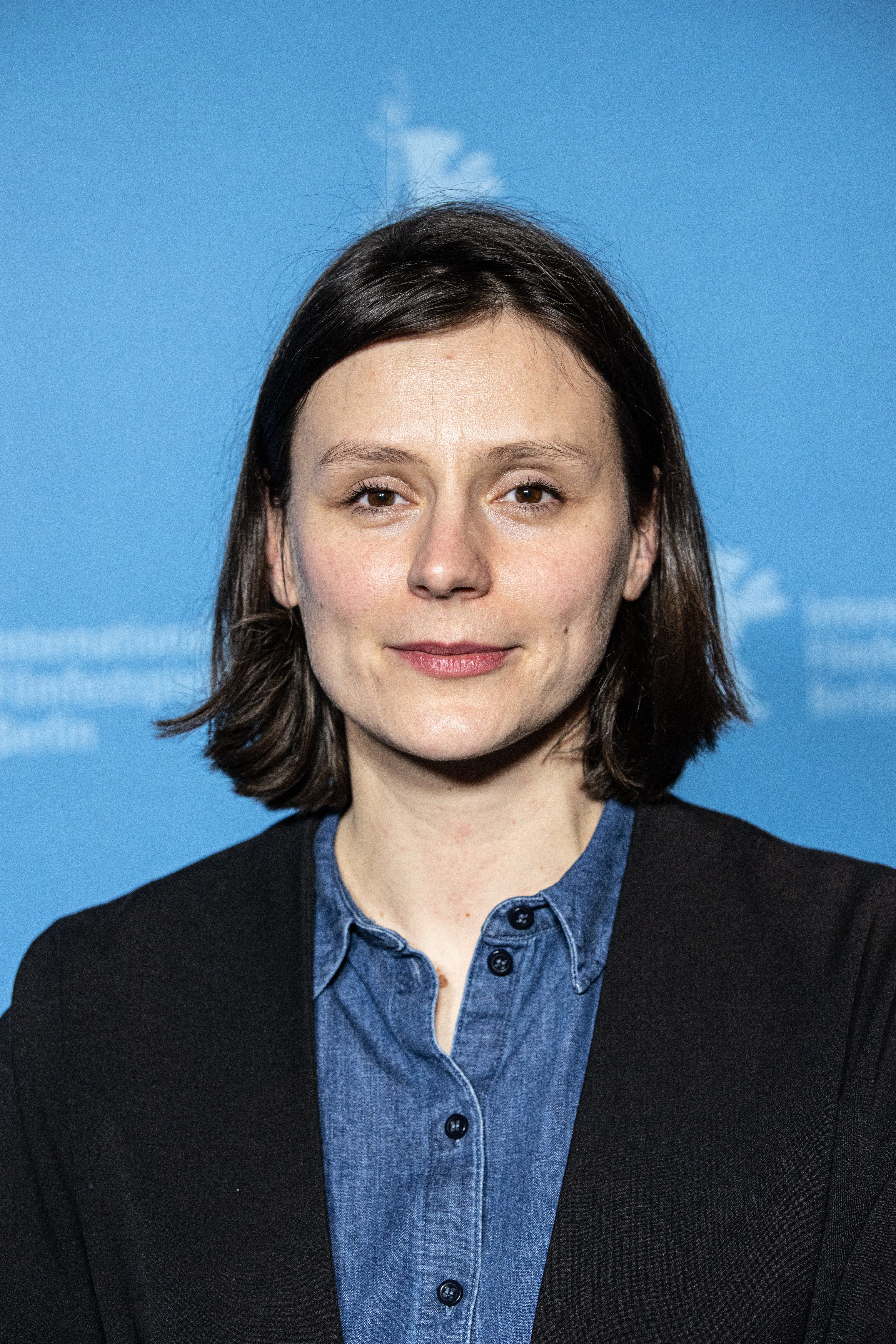 Film director Sandra Wollner at the Berlinale 2020